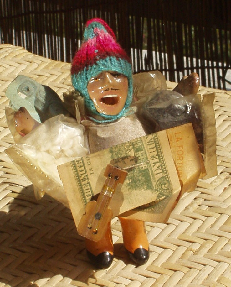 Ceramic Equeko - The god of wealth in andean mythology.